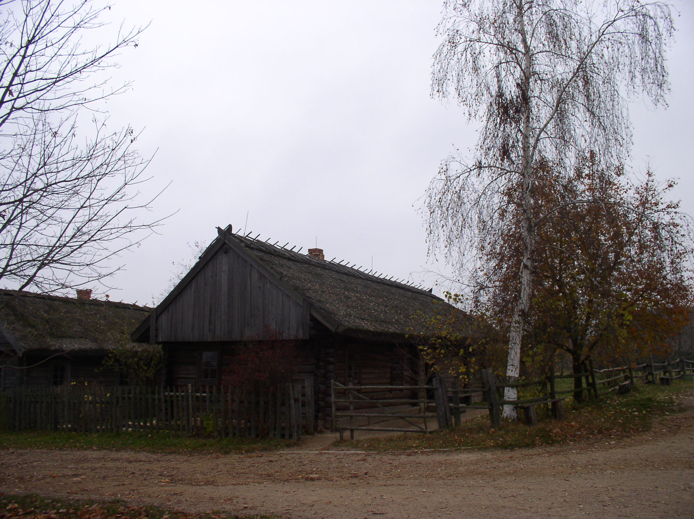 House from Central Belarus. State museum of folk architecture and life, Belarus.